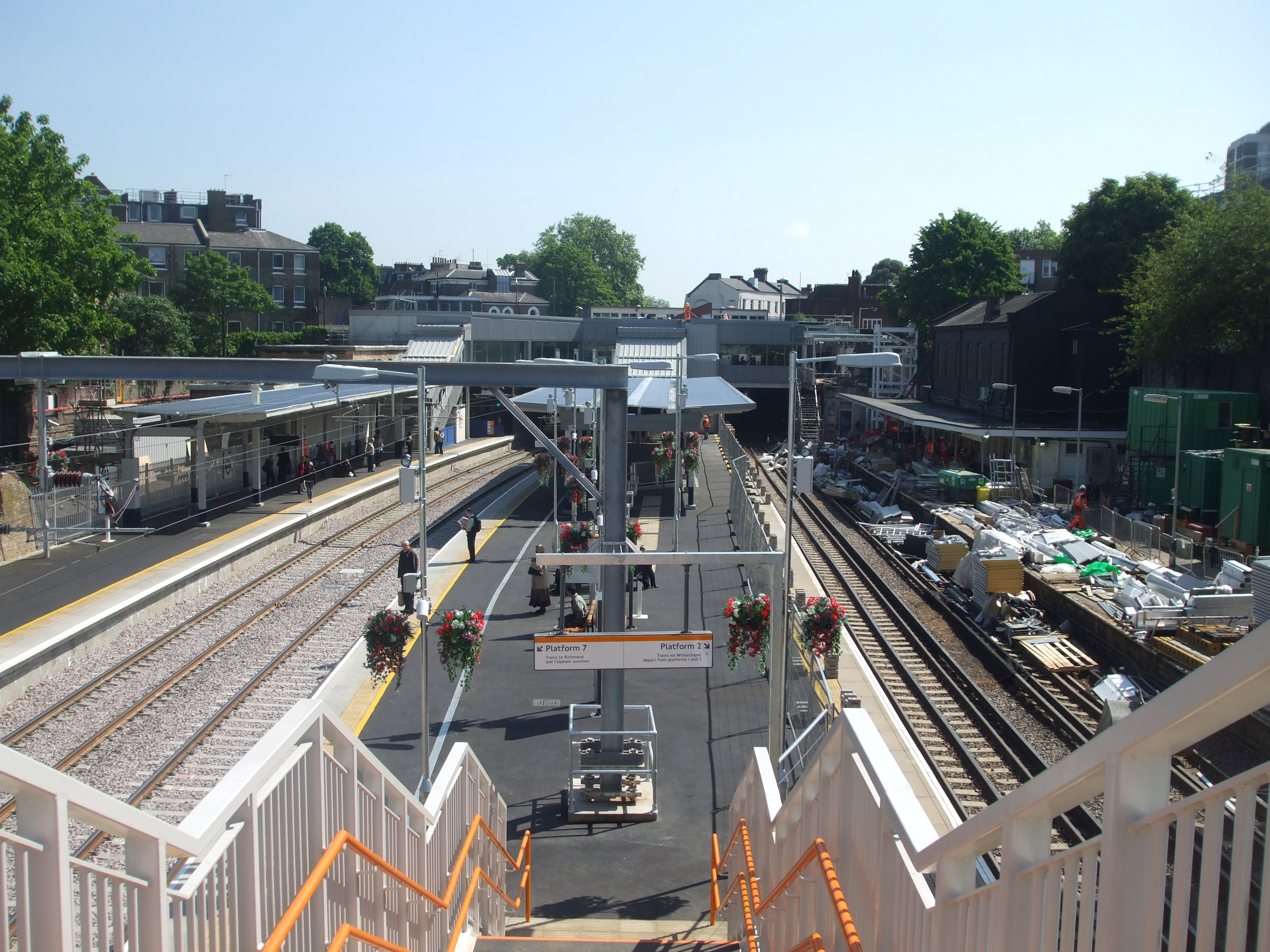 Looking east from the new footbridge at Highbury & Islington station in June 2010 with the former North London Line tracks on the right, which are being reconstructed as part of the East London Line (section due open 2011, terminating at the station), and the new North London Line tracks, on the left.